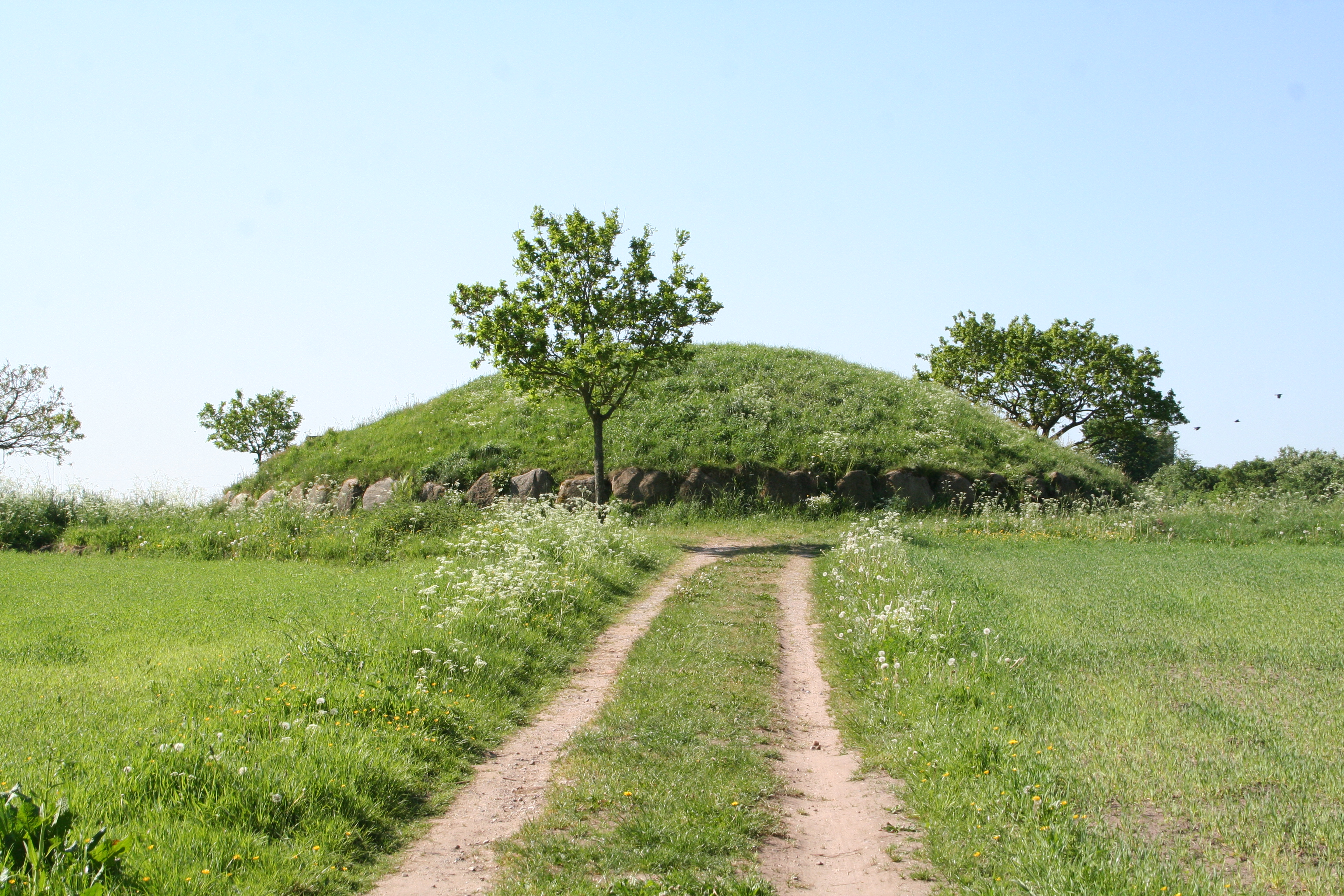 Rugballe Grønhøj near Horsens, Midtjylland, Denmark